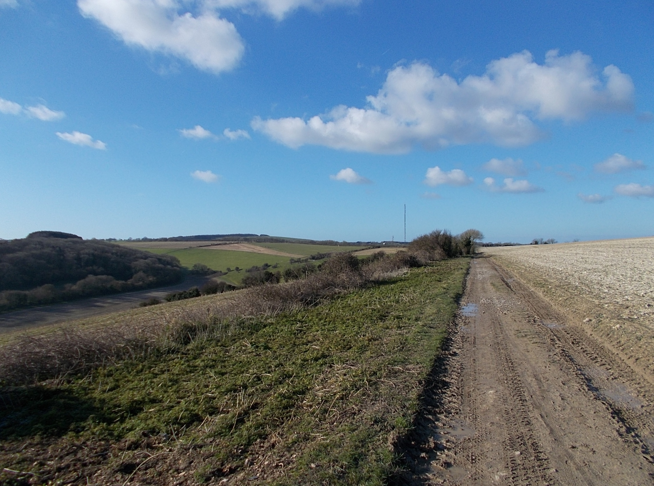 View along the Tennyson Trail, Isle of Wight, UK. Taken above Bowcombe, looking west, with Rowridge Transmitter in the distance.